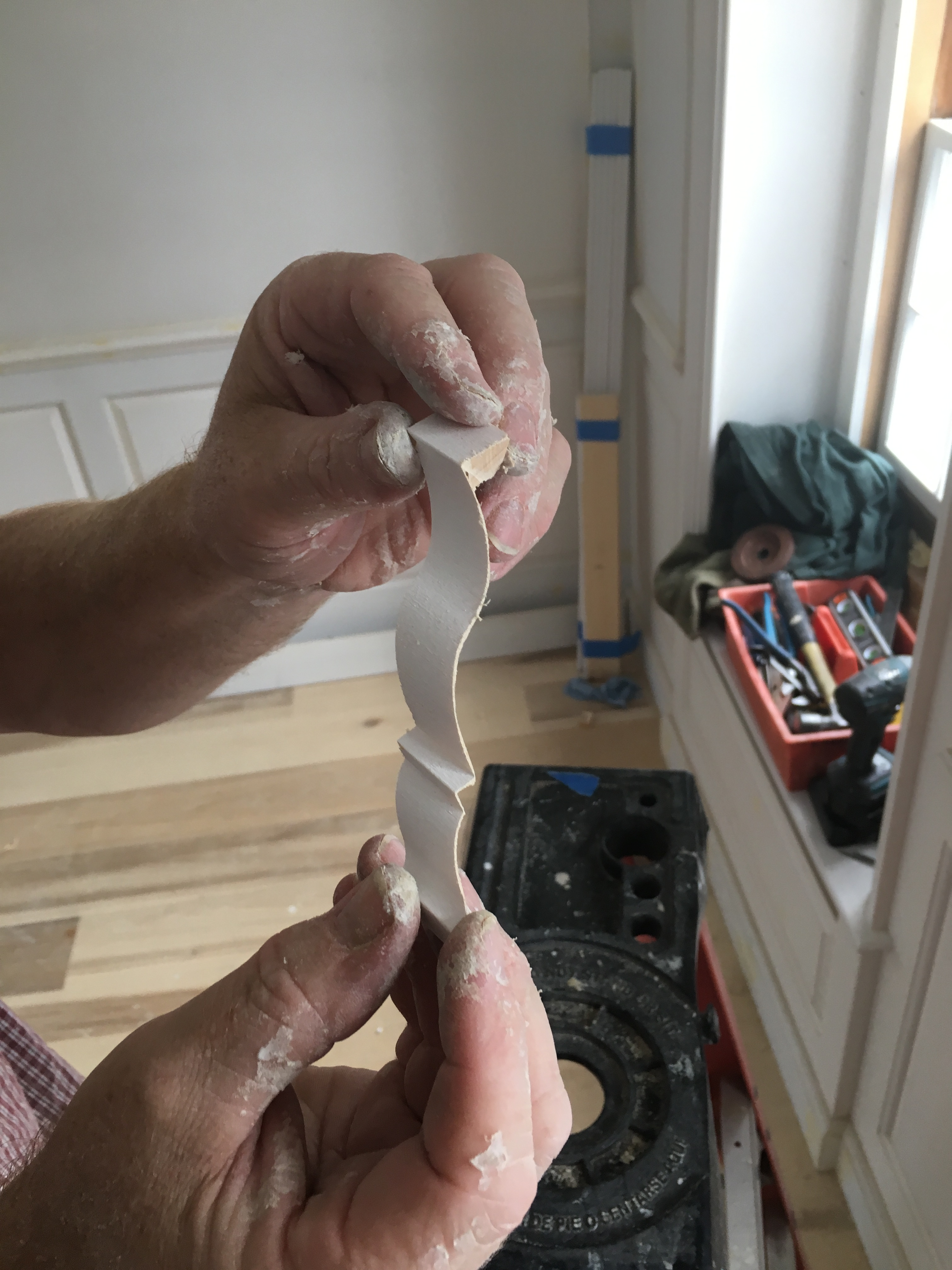 Short 90-degree "return" of crown molding back-cut with a coping saw, Bray House, Kittery Point, Maine